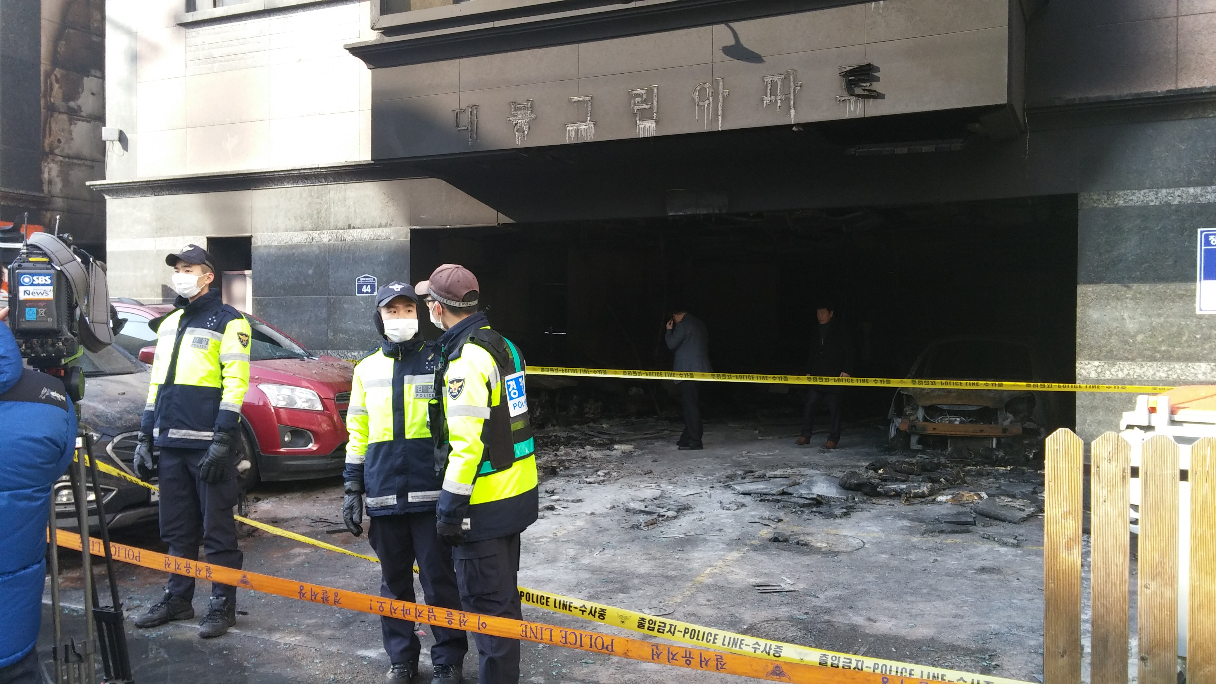 Uijeongbu condominium fire accident place